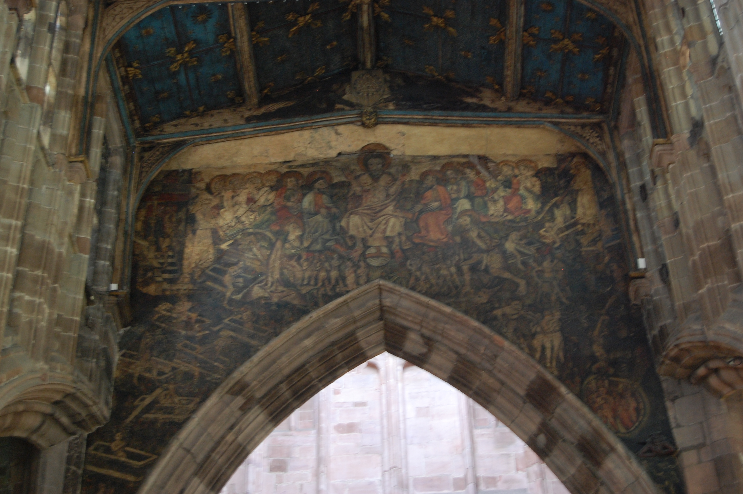 wall painting 1a - Holy Trinity Church in Coventry, UK